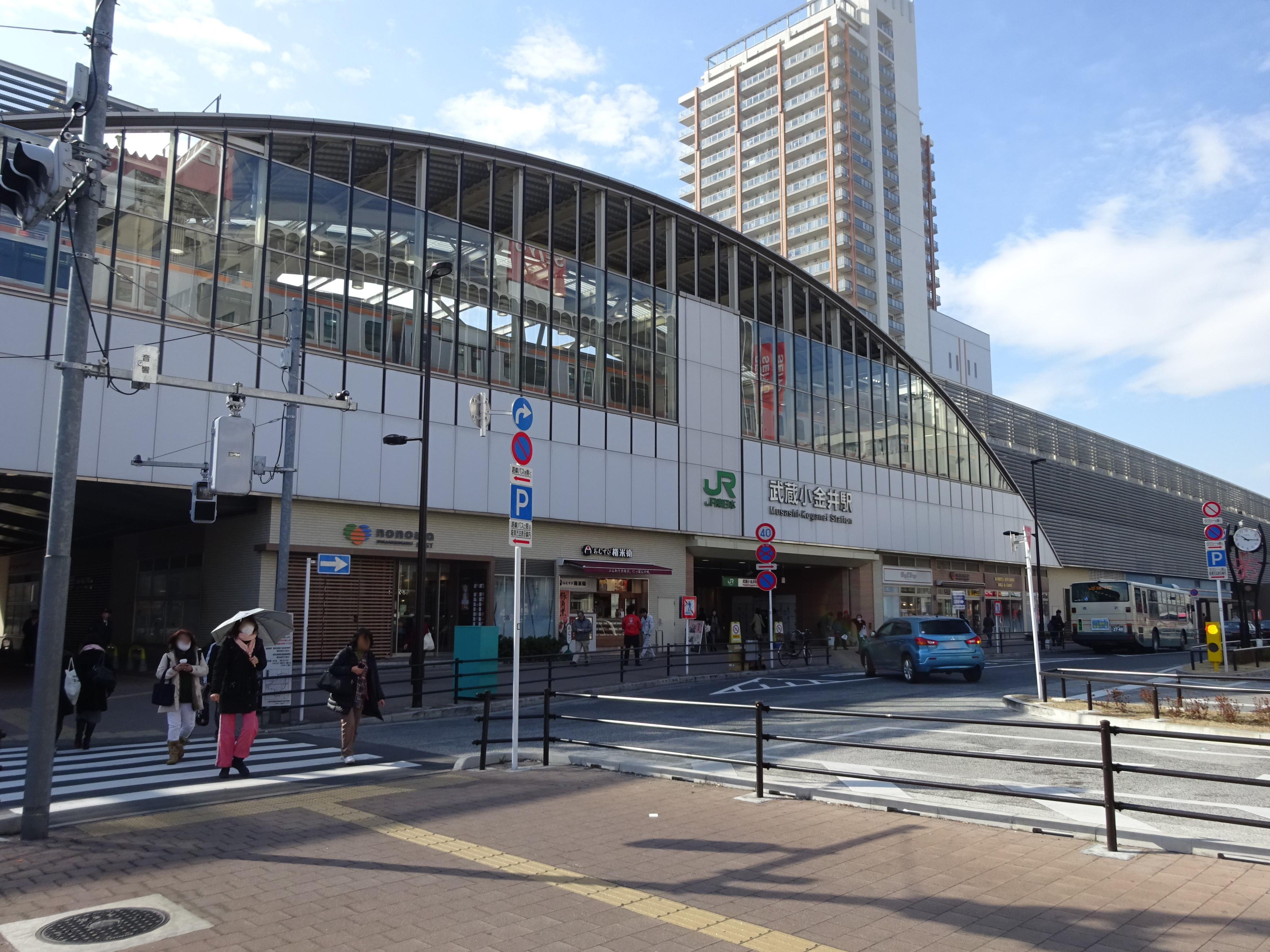 North entrance of Musashi-Koganei Station